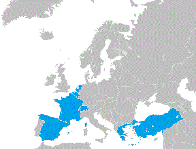 Map of Europe with members of the International Commission on Civil State, as of 2018.